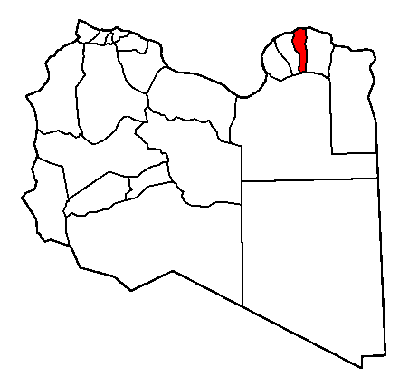 map of libya with Shabiat Darnah highlighted